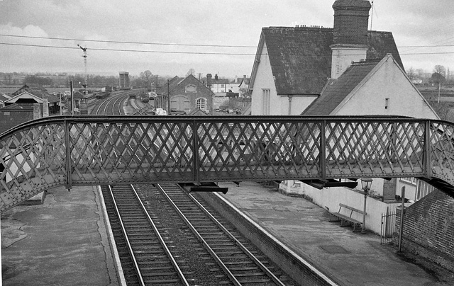 Broad Clyst Station, View eastward in 1964, towards Sidmouth Junction, Salisbury and London; ex-London & South Western London etc. - Salisbury - Exeter main line. This station was closed 7/3/66, when the main line was demoted in the 60's albeit partially restored more recently.